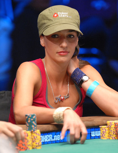 Kara Scott at the 2008 World Series of Poker